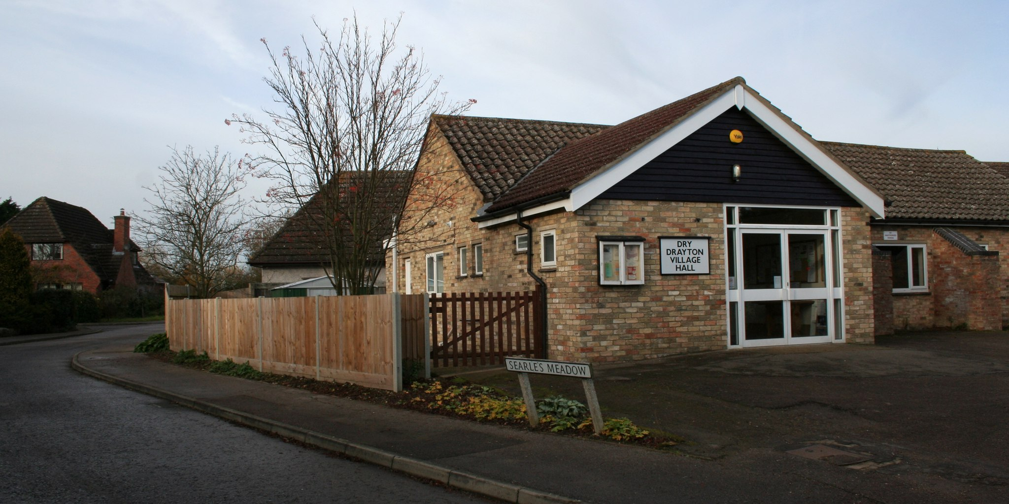 Dry Drayton village hall in December 2013.